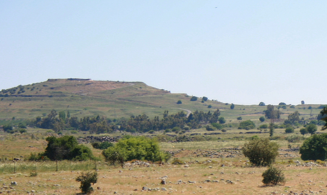 Mt. Yosifun, Golan heights.